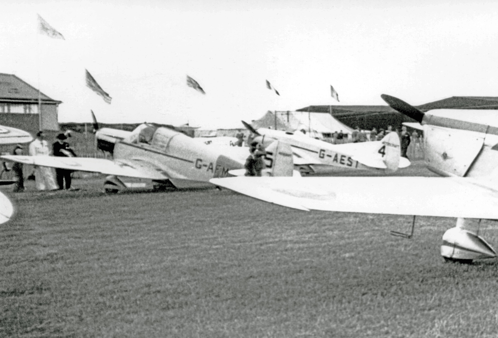 Moss M.A.2 G-AFMS (left) and Moss M.A.1 G-AEST (right) at Wolverhampton (Pendeford) in 1950